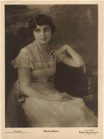 Beverly Bayne